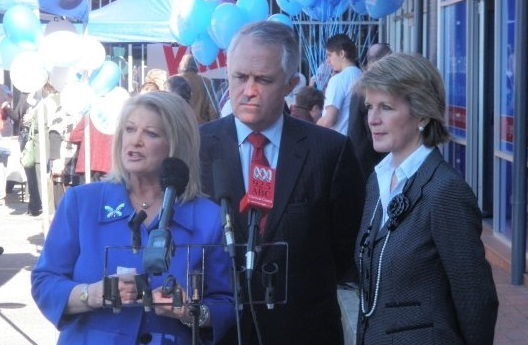 Helen Coonan with Malcolm Turnbull and Julie Bishop at the launch of Liberal House Central Coast in Erina, NSW